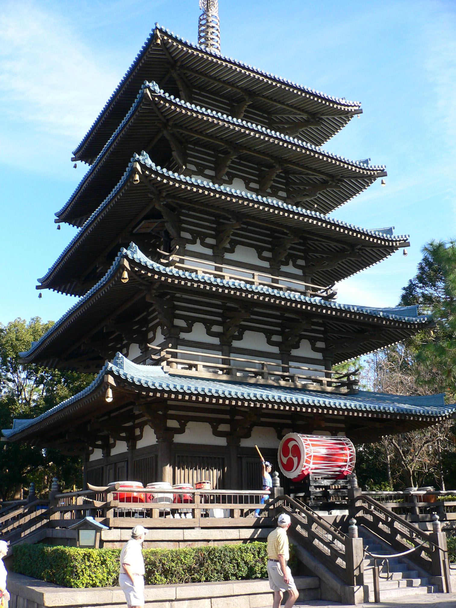 Picture from Japanese pavilion at EPCOT, Disney World.